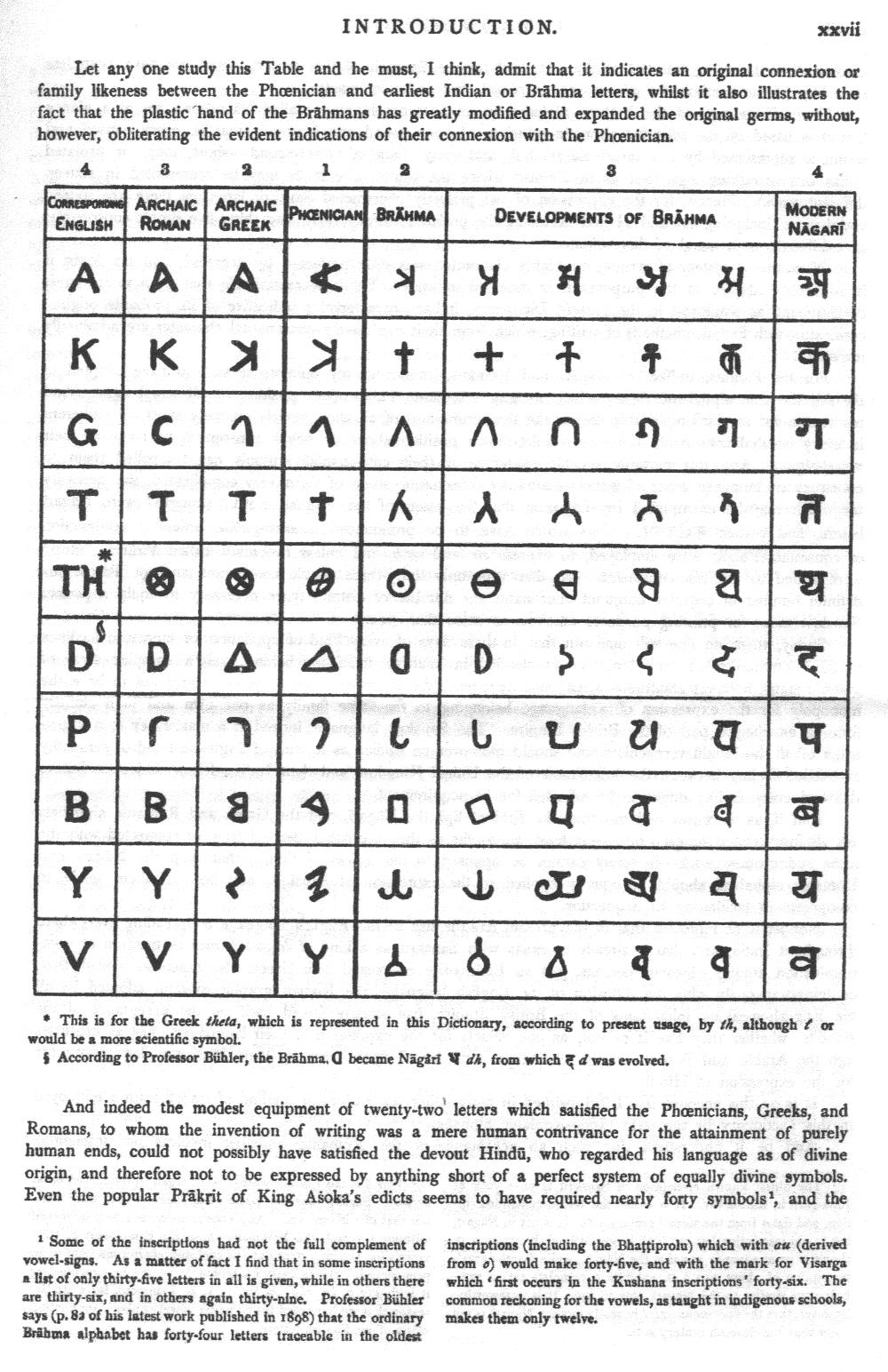 Sanskrit Brahma English alphabet